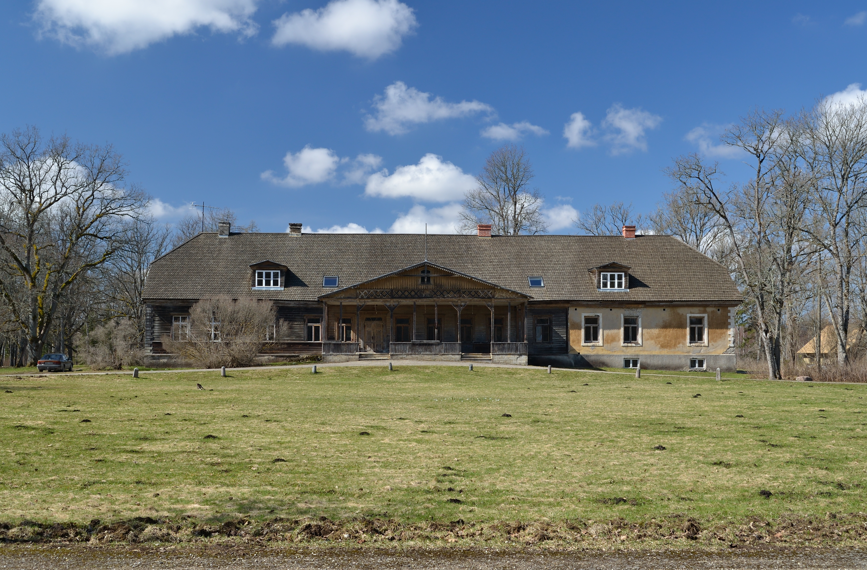 Esna manor main building